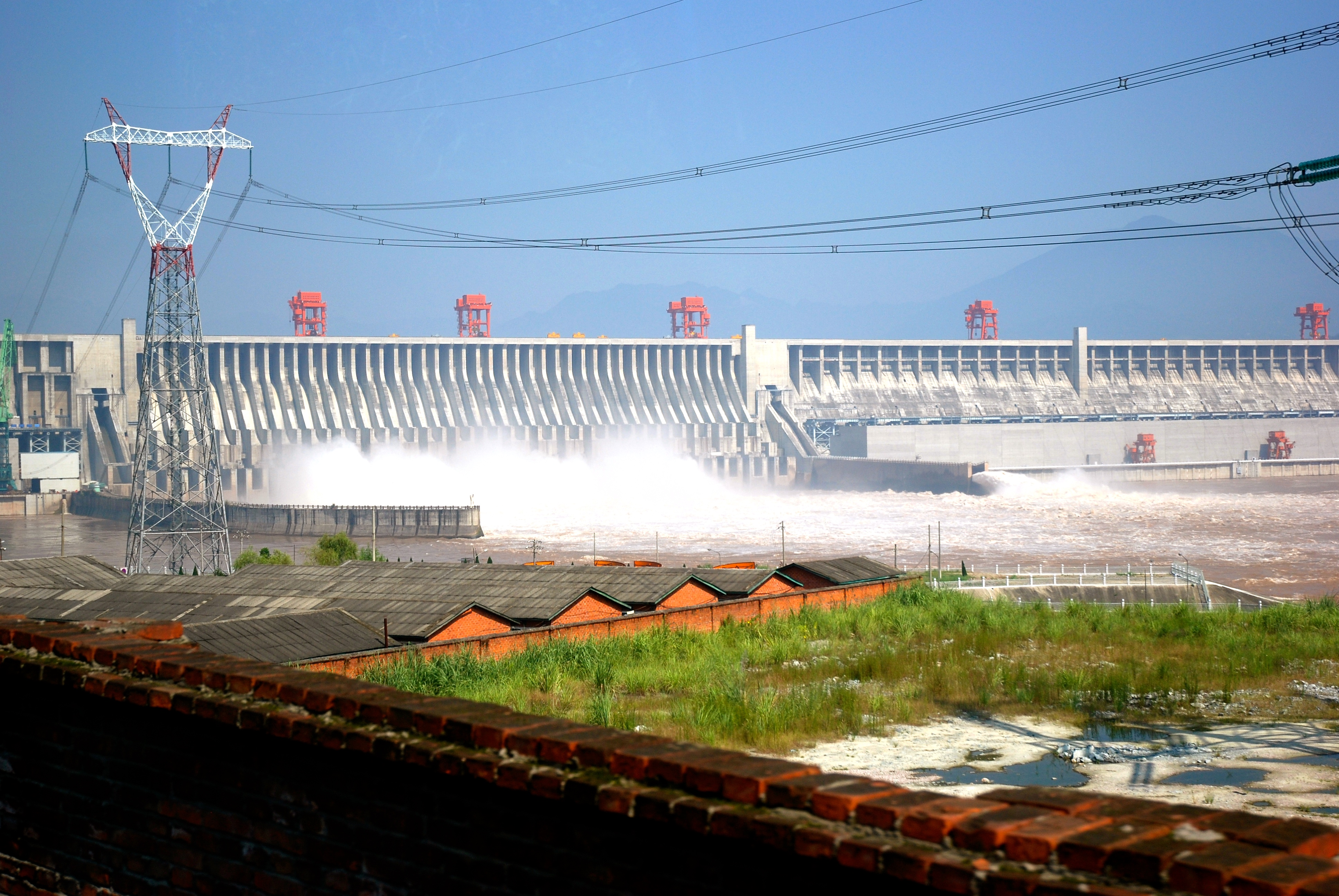 Three Gorges Dam, Sept 2008